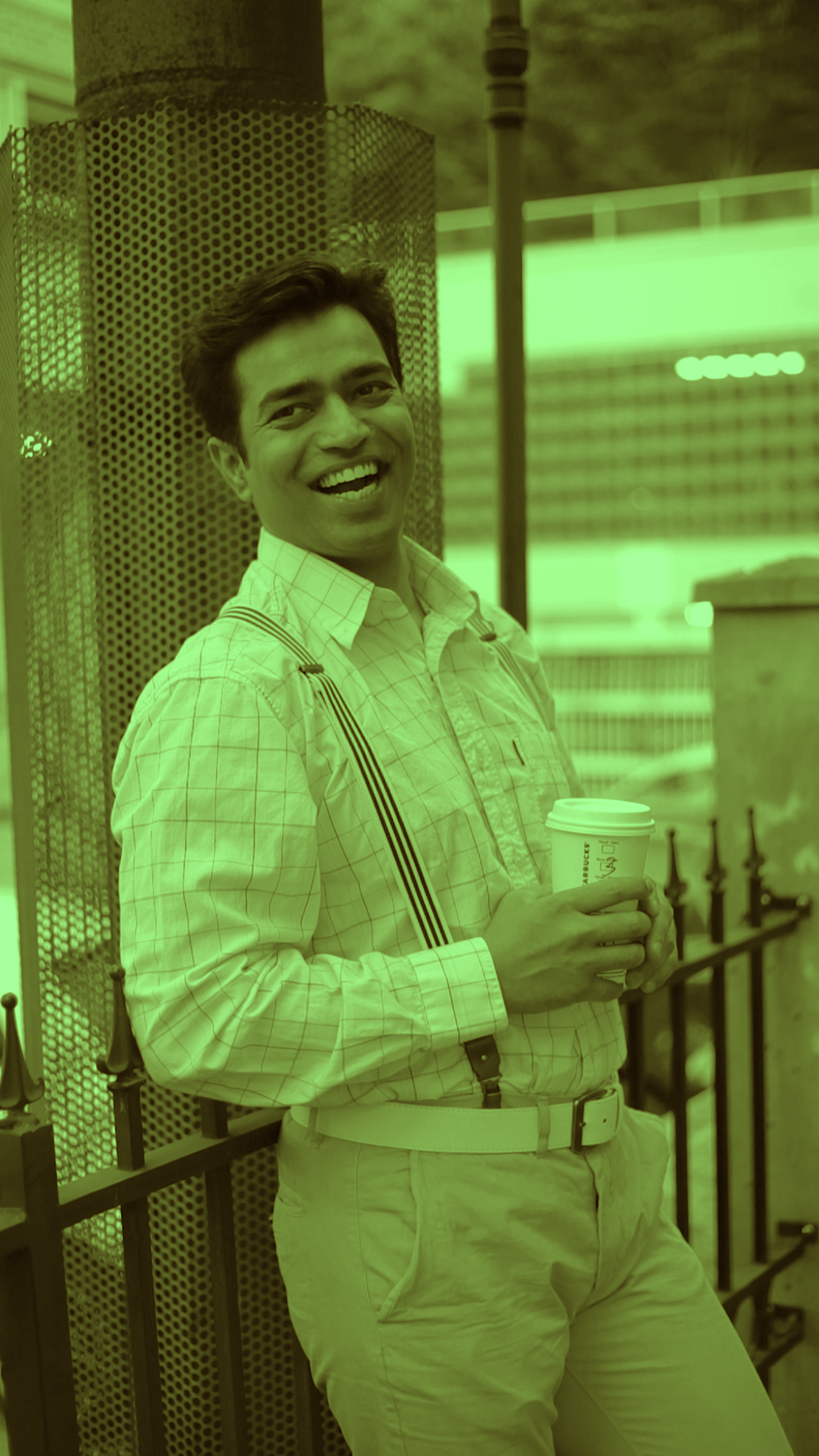 HarpreetSandhuforMilestoneB&W